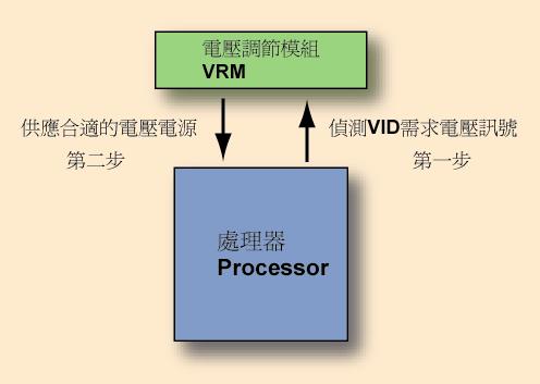 VRM Description 中文（台灣）: VRM示意圖